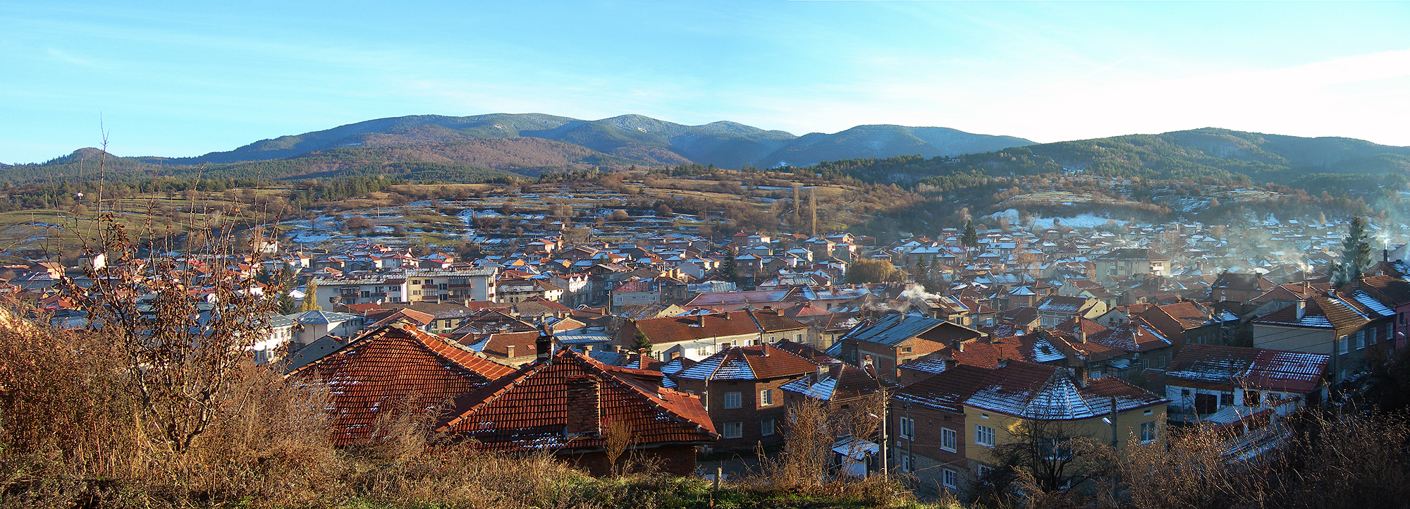 Panorama of Batak, Bulgaria